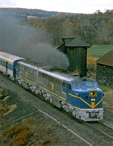 Alco PA's Hauling Passengers on the Delaware & Hudson.